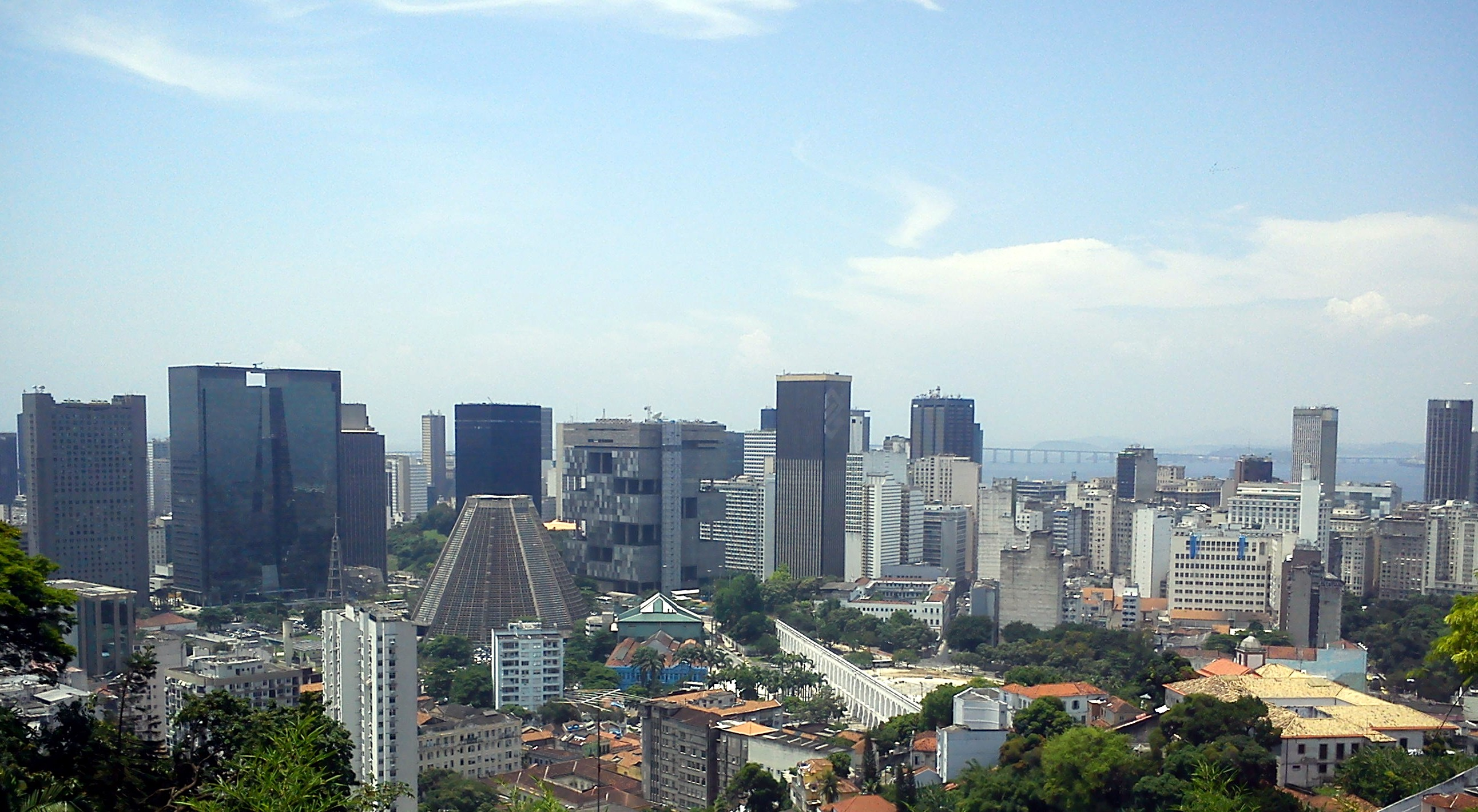 View of the City of Rio de Janeiro, from the Chacara do Ceu Museum in Santa Teresa. At the center of the image, the Metropolitan Cathedral and the Arcos da Lapa (Carioca Aqueduct)